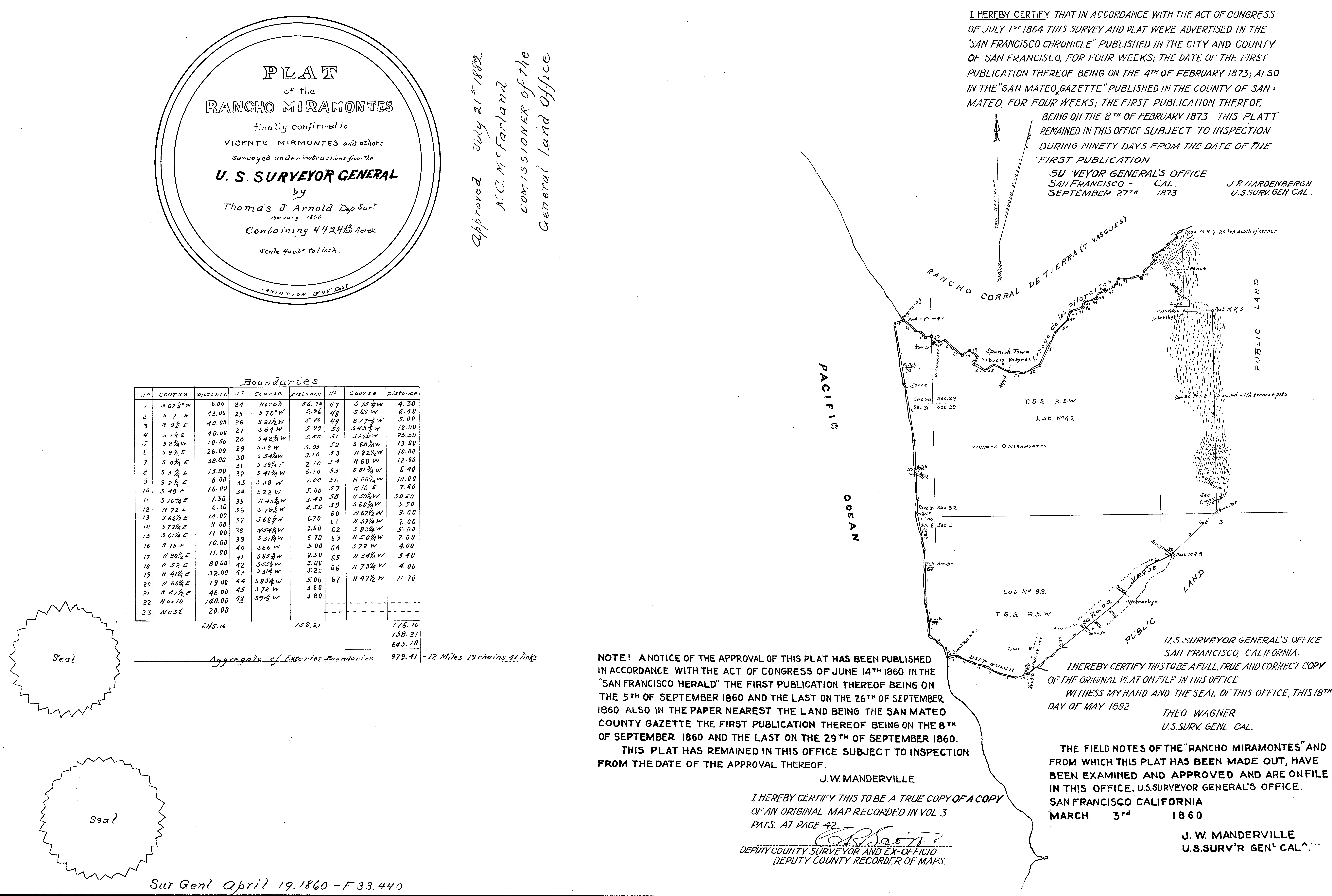 As required by the Land Act of 1851, a claim for Rancho Miramontes was filed with the Public Land Commission in 1852, and the grant was patented to Juan Jose Candelario Miramontes in 1882